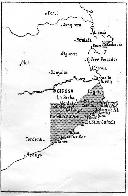 Map of the extent of the "salat article" in the Costa Brava